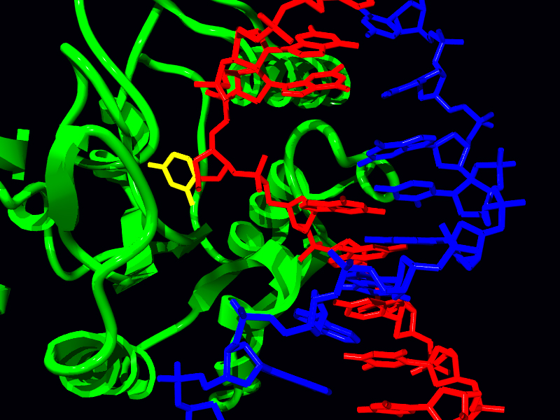 Human uracil-DNA glycosylase bound to its DNA substrate. The uracil is coloured in yellow. Created from PDB 4SKN Reference "A nucleotide-flipping mechanism from the structure of human uracil-DNA glycosylase bound to DNA." Slupphaug G, Mol CD, Kavli B, Arvai AS, Krokan HE, Tainer JA. Nature. 1996 Nov 7;384(6604):87-92. PMID 8900285